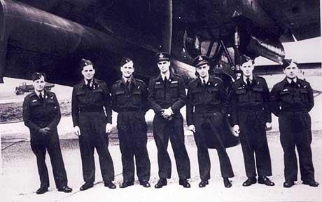 Flight Lieutenant John Howland Leavitt of Squadron 617, Royal Air Force, and the crew of his RAF Lancaster prior to Operation Catechism, the successful bombing run on the German battleship Tirpitz, November 12, 1944.